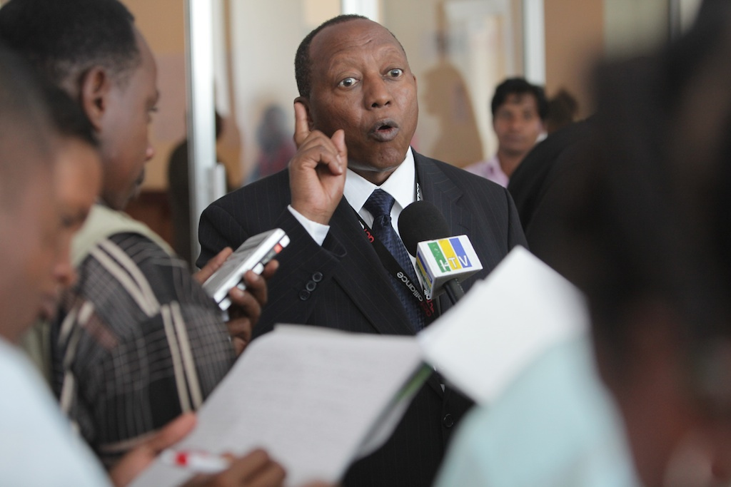 Former Tanzanian prime minister Frederick Sumaye speaking to media.